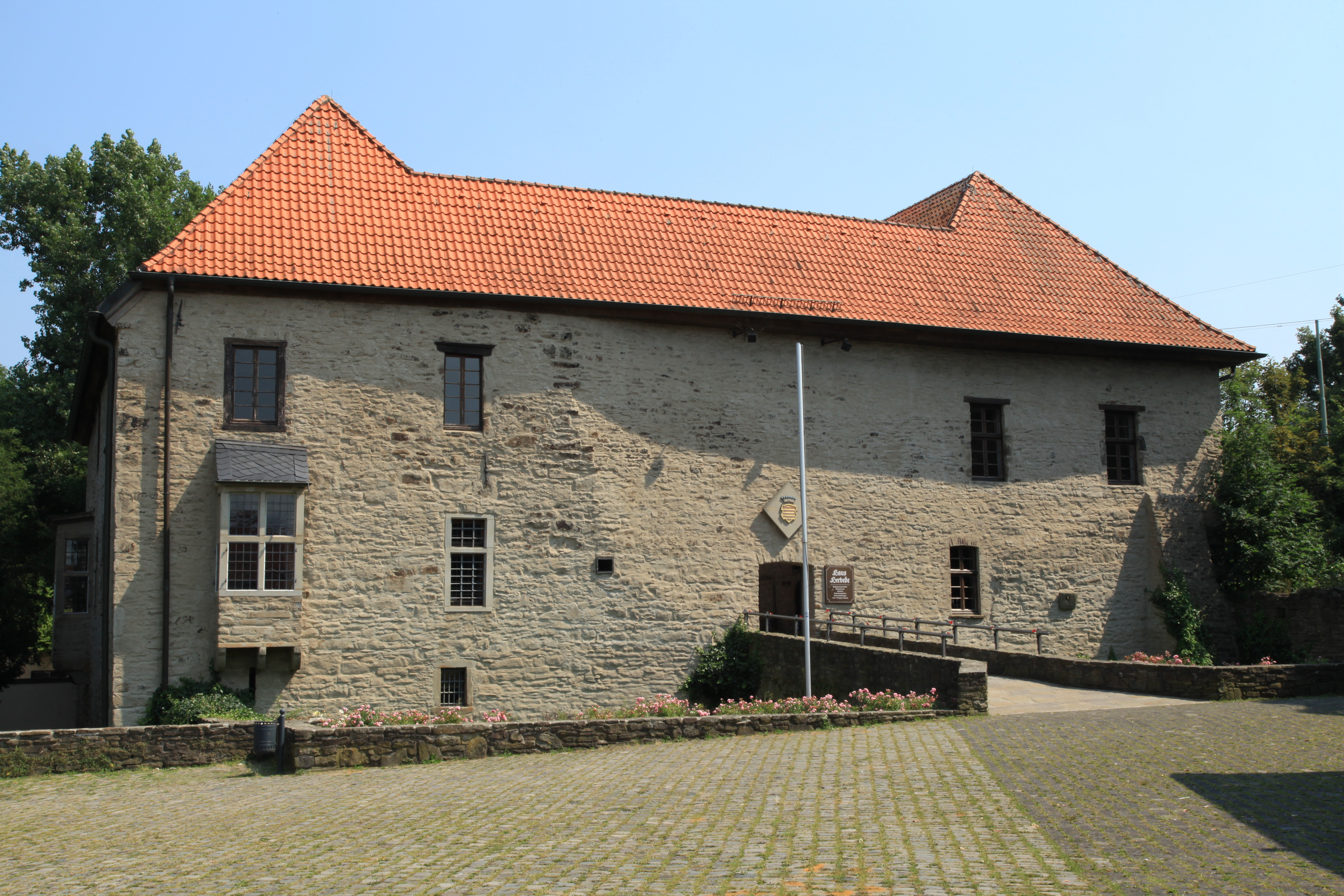 Castle Haus Herbede in Witten, Germany